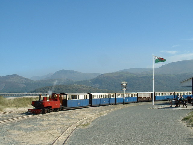 Fairbourne & Barmouth Steam Railway Train about to depart from Penrhyn Point for Fairbourne.